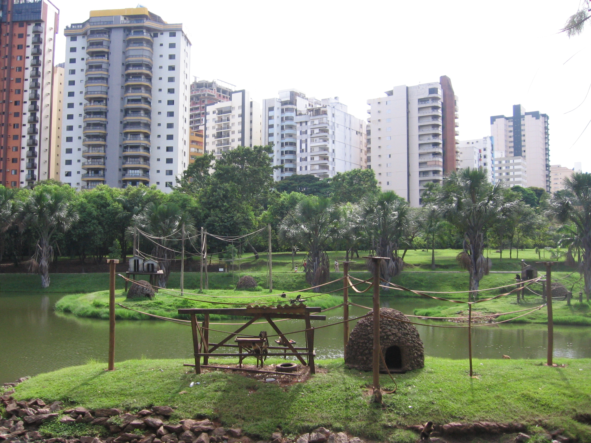 Goiânia Zoo - The monkey area, with the buildings of Setor Oeste in the background.